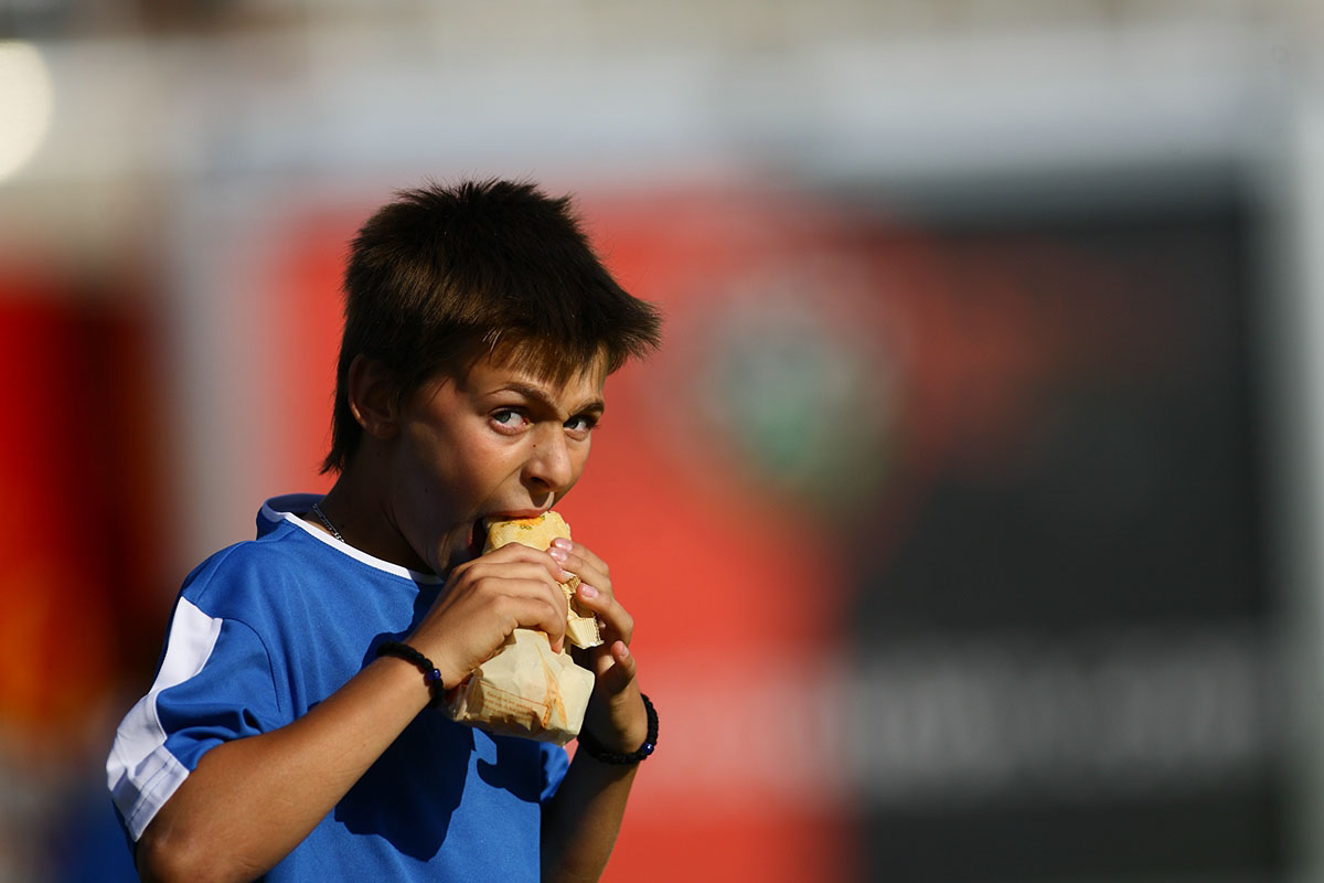 MAY 21, 2008 - Football : The 36th Festival International 'Espoirs' of Toulon match between U23 Italy and U23 Cote d'Ivoire at Stade Mayol on May 21, 2008 in Toulon, France. (Photo by Tsutomu Takasu)